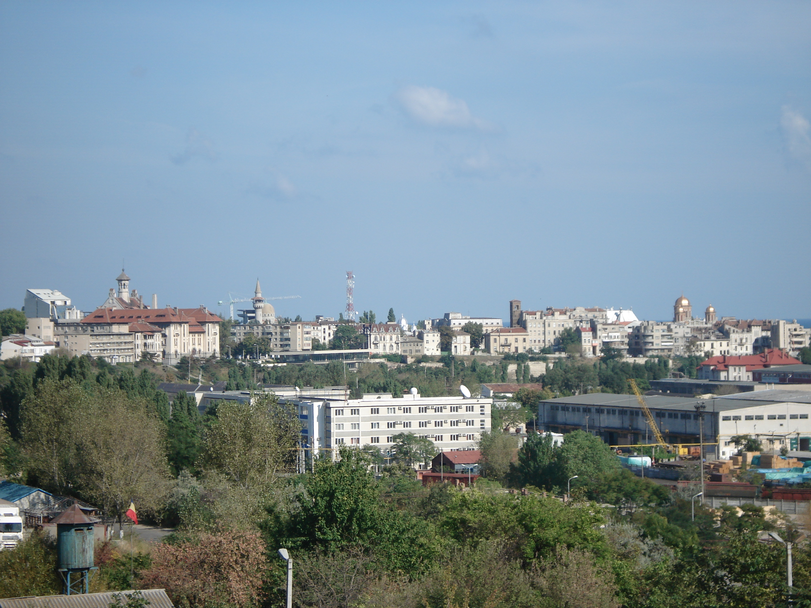 General view of Constanta Old Town (Peninsula Area) (in the background). The taller buildings are(from left to right) the History Museum, Carol I Mosque, Saint Anthony Roman Catholic Church and Orthodox Cathedral